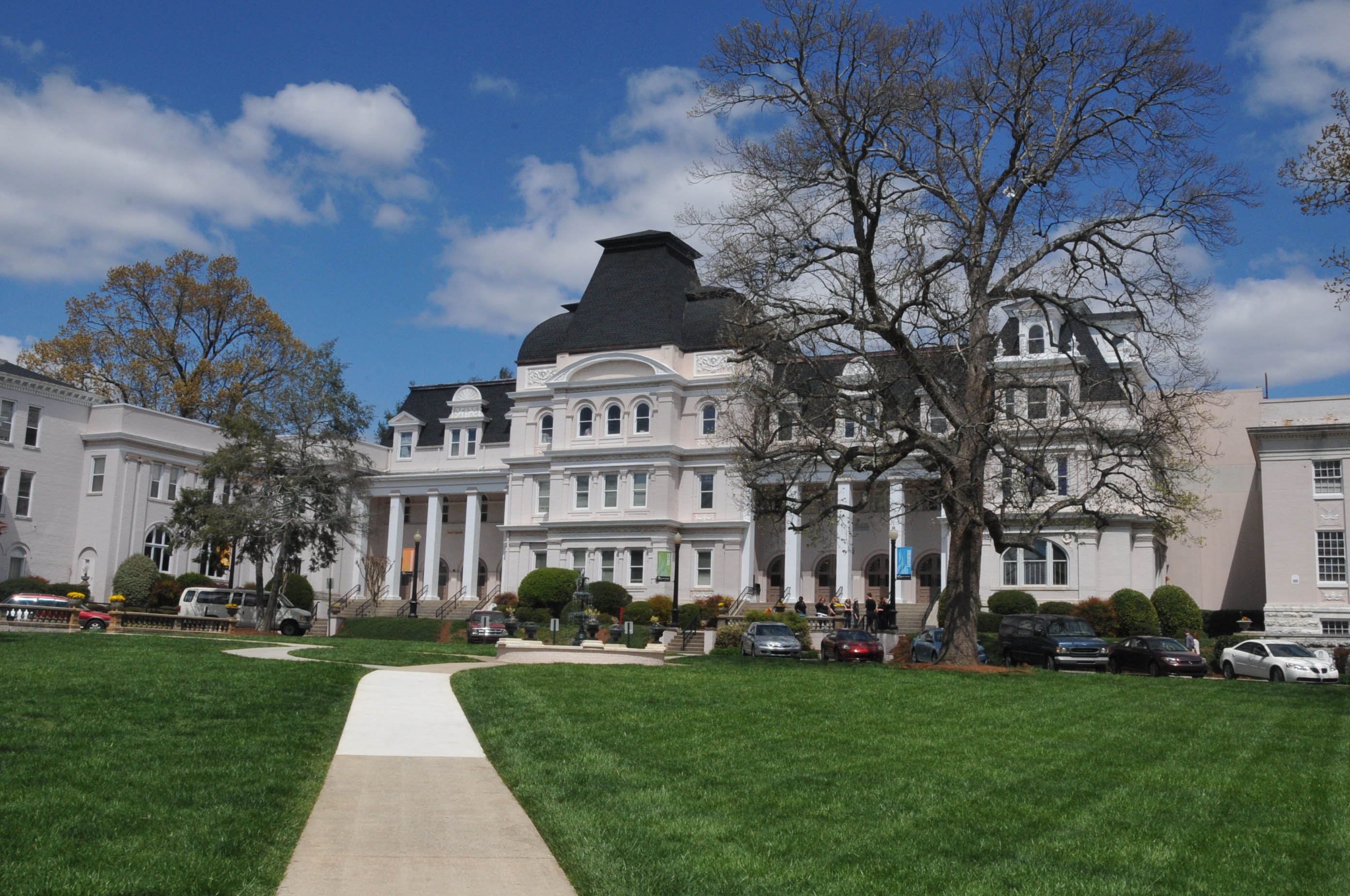 BRENAU WAS ESTABLISHED IN 1878 AS THE GEORGIA BAPTIST FEMALE SEMINARY AND BECAME BRENAU COLLEGE IN 1900; PEARCE AUDITORIUM SHOWN IN THIS PICTURE WAS DEDICATED IN 1897